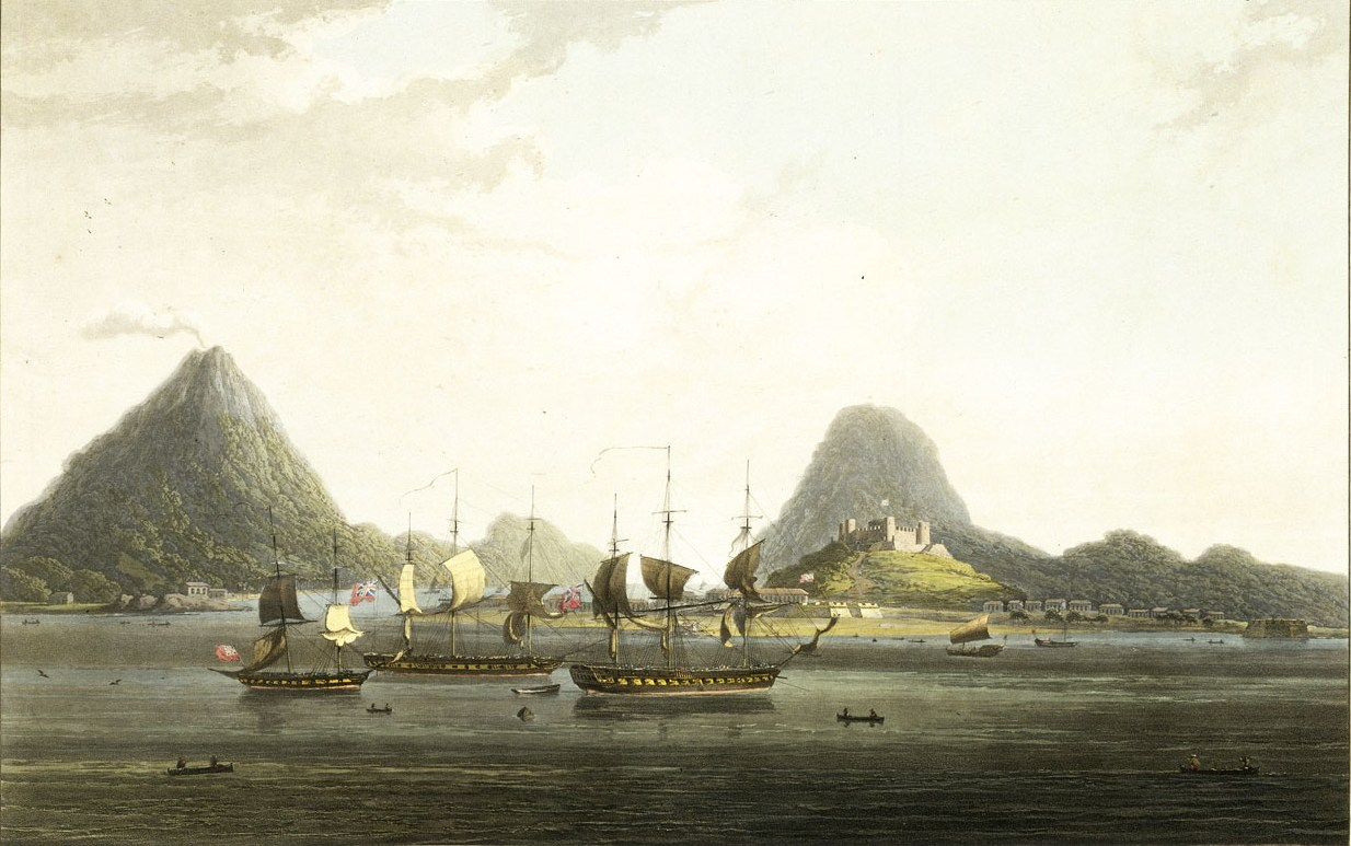 View of the Island of Banda-Neira... Captured by a force landed from a squadron under the Command of Captain Cole in the morning of the 9th August 1810 (PAG9056)